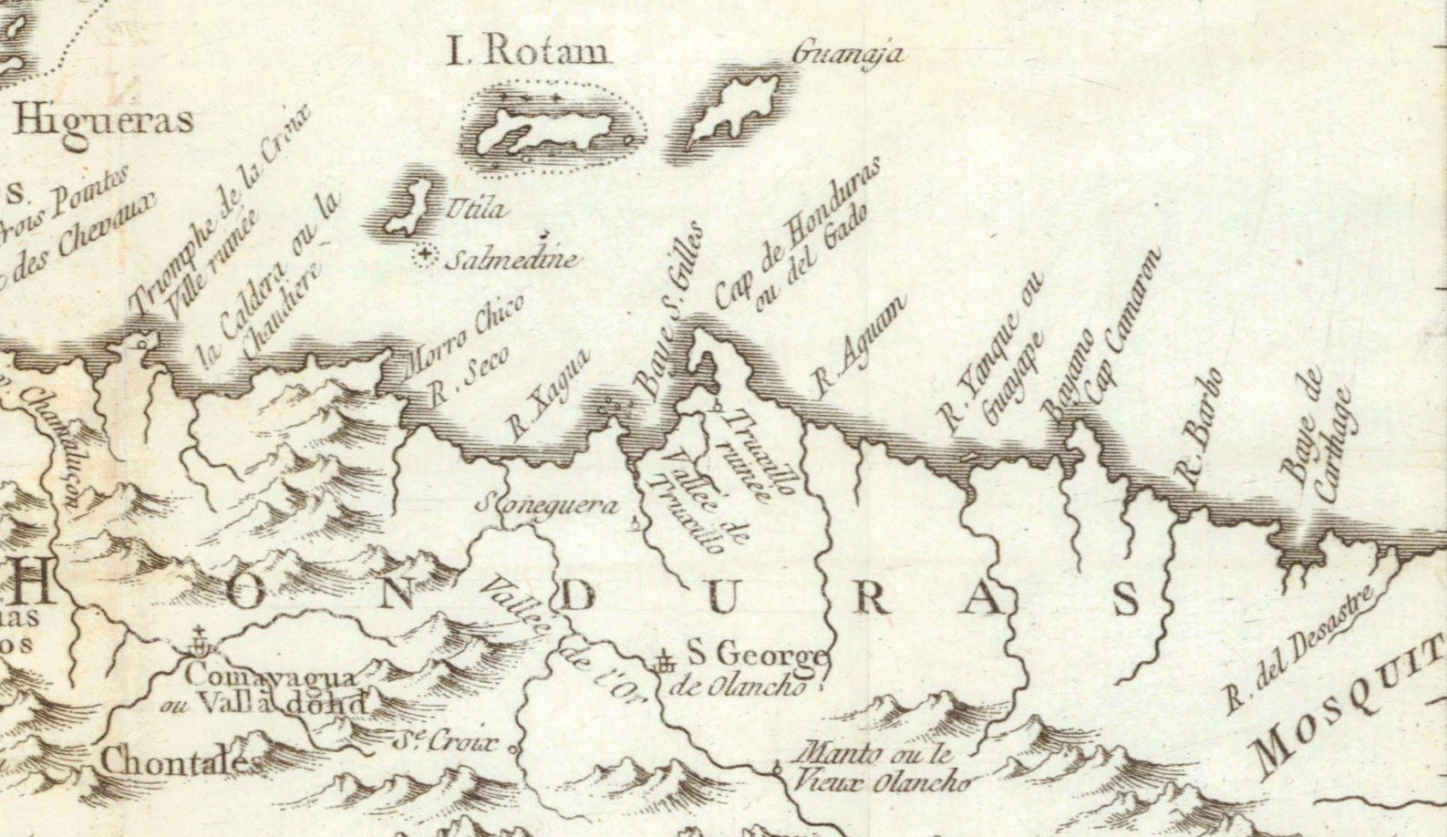 The Bay Islands and Atlantic coast of Honduras. Cropped from a Nicolas Bellin map titled Carte Des Provinces De Verapaz, Guatimala, Honduras Et Yucatan. Published in 1754.